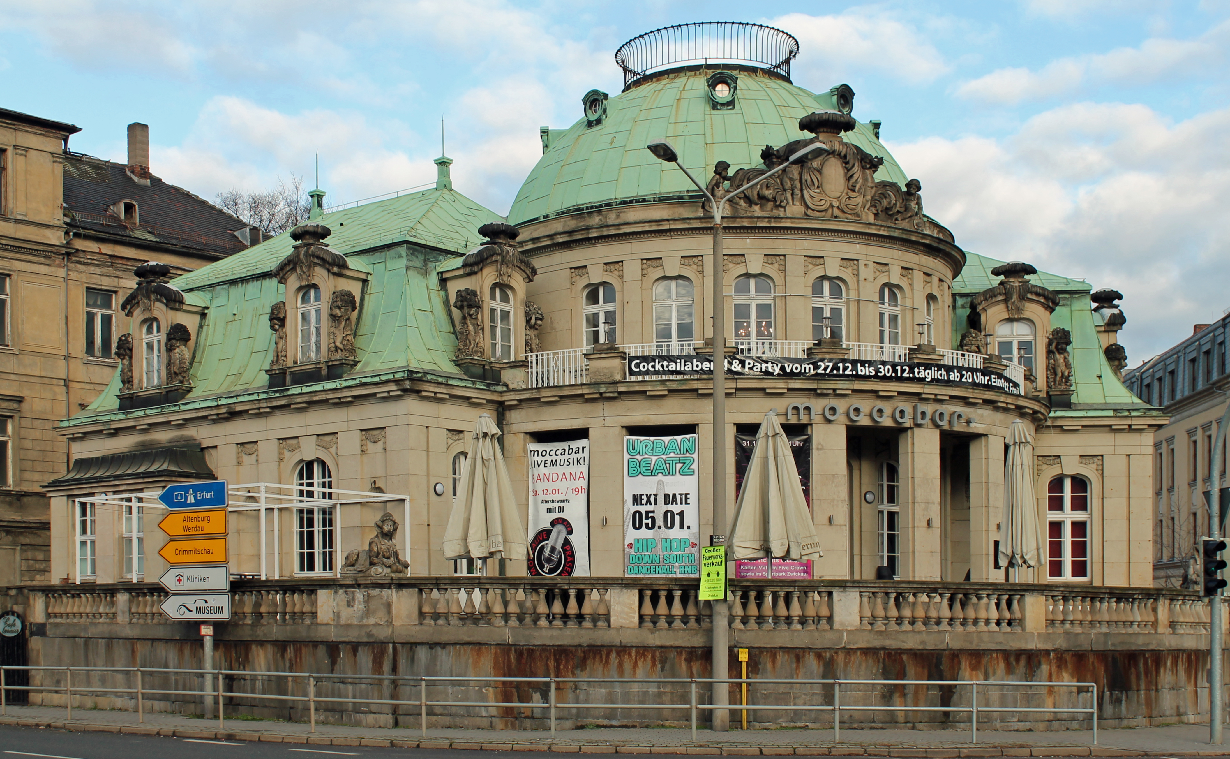 The former "Wolf-Villa" in Zwickau, Saxony, Germany.